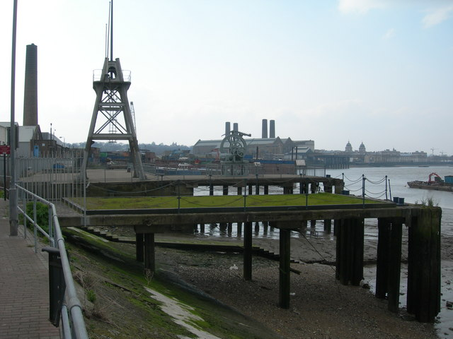 Alcatel Jetty Showing Enderby's Wharf in the background (that's the one with the tower on it).